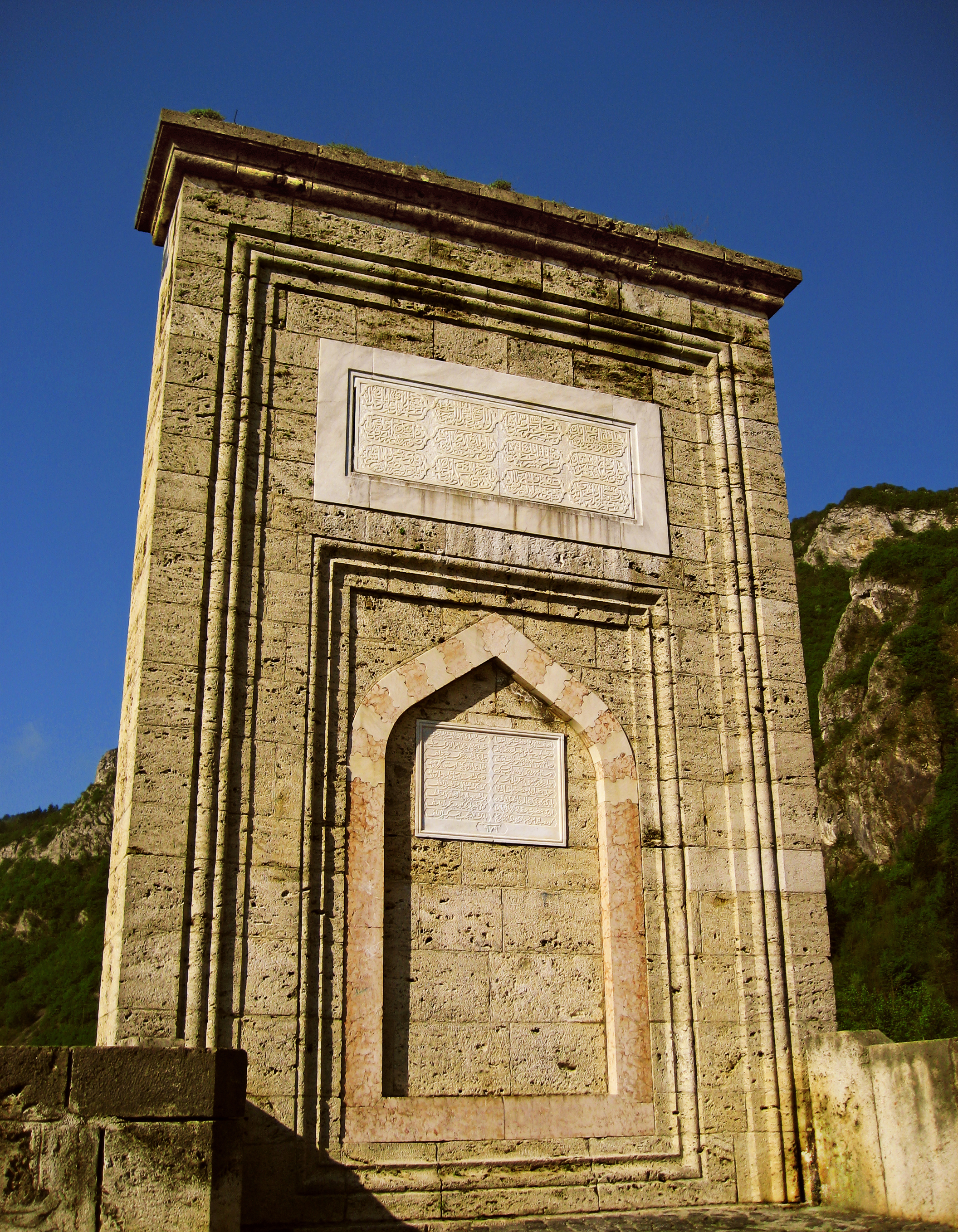 Central part of the Mehmed pasha Sokolovic bridge, inscriptions on Arabian and Persian alphabet